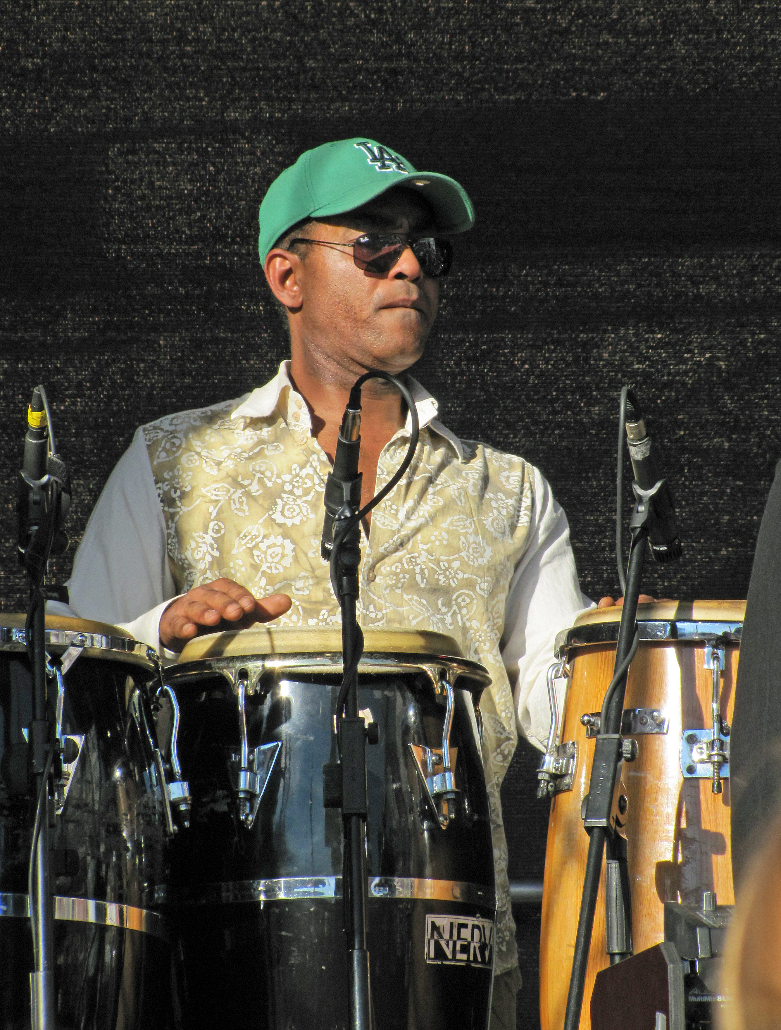 Biboul Darouiche, perc. (cameroon), with Doldingers "Passport", at "Jazz zum Dritten", 2010 in Frankfurt am Main, Germany.